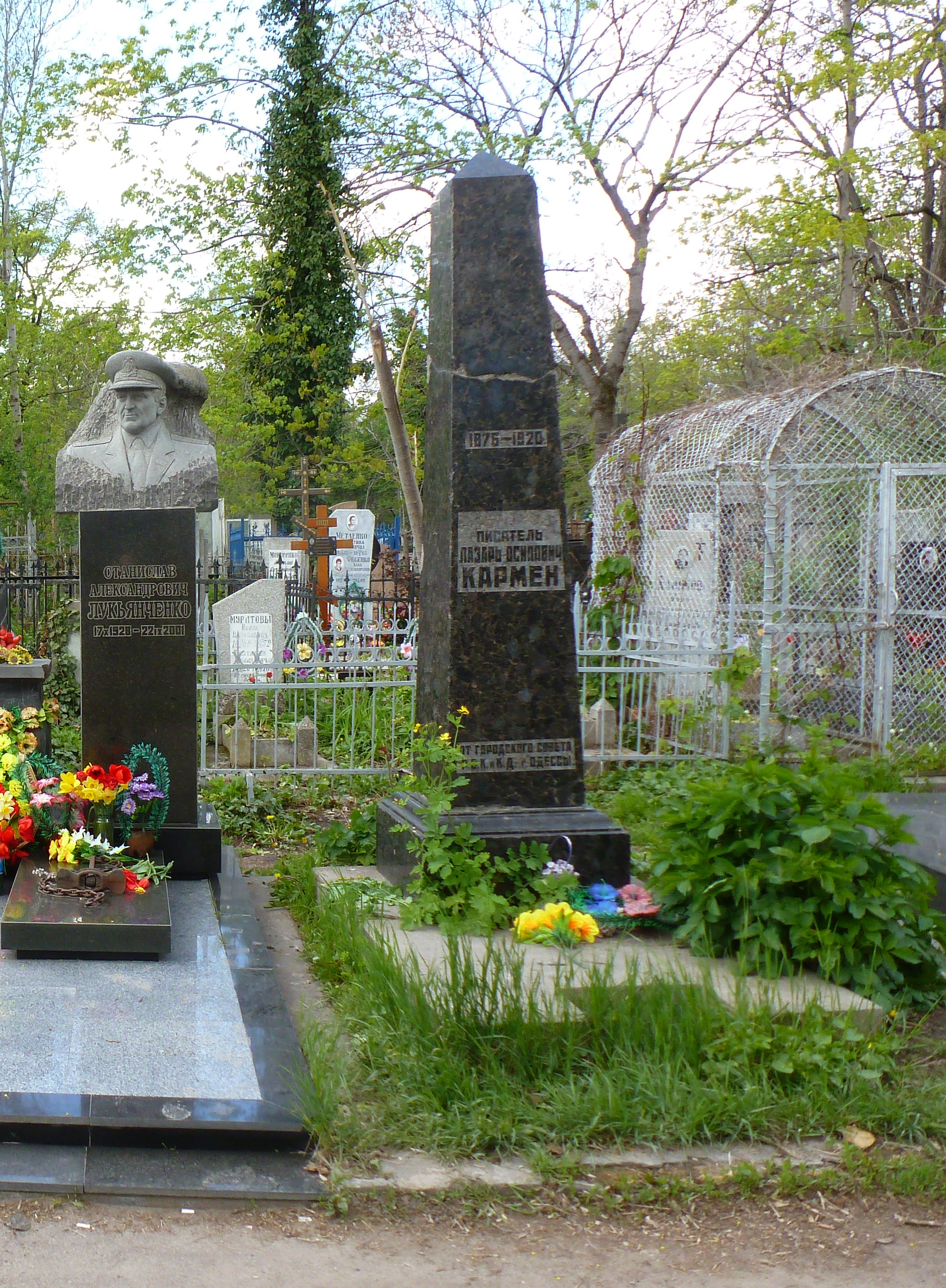 Tombstone of writer Lazar Osipovich Karmen. 2nd Christian Cementery in Odessa.